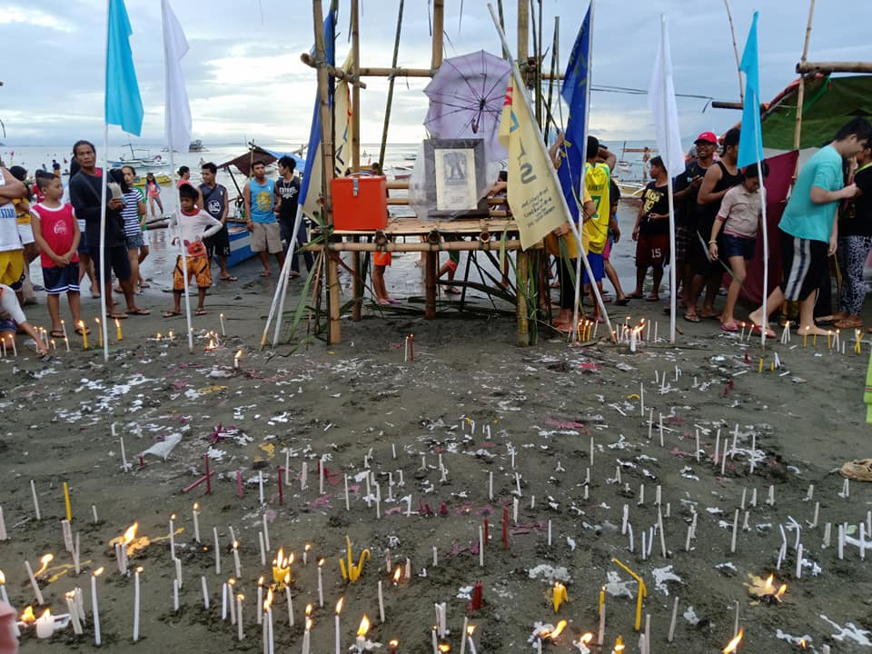 Photo by: Anniel C. Cabubas